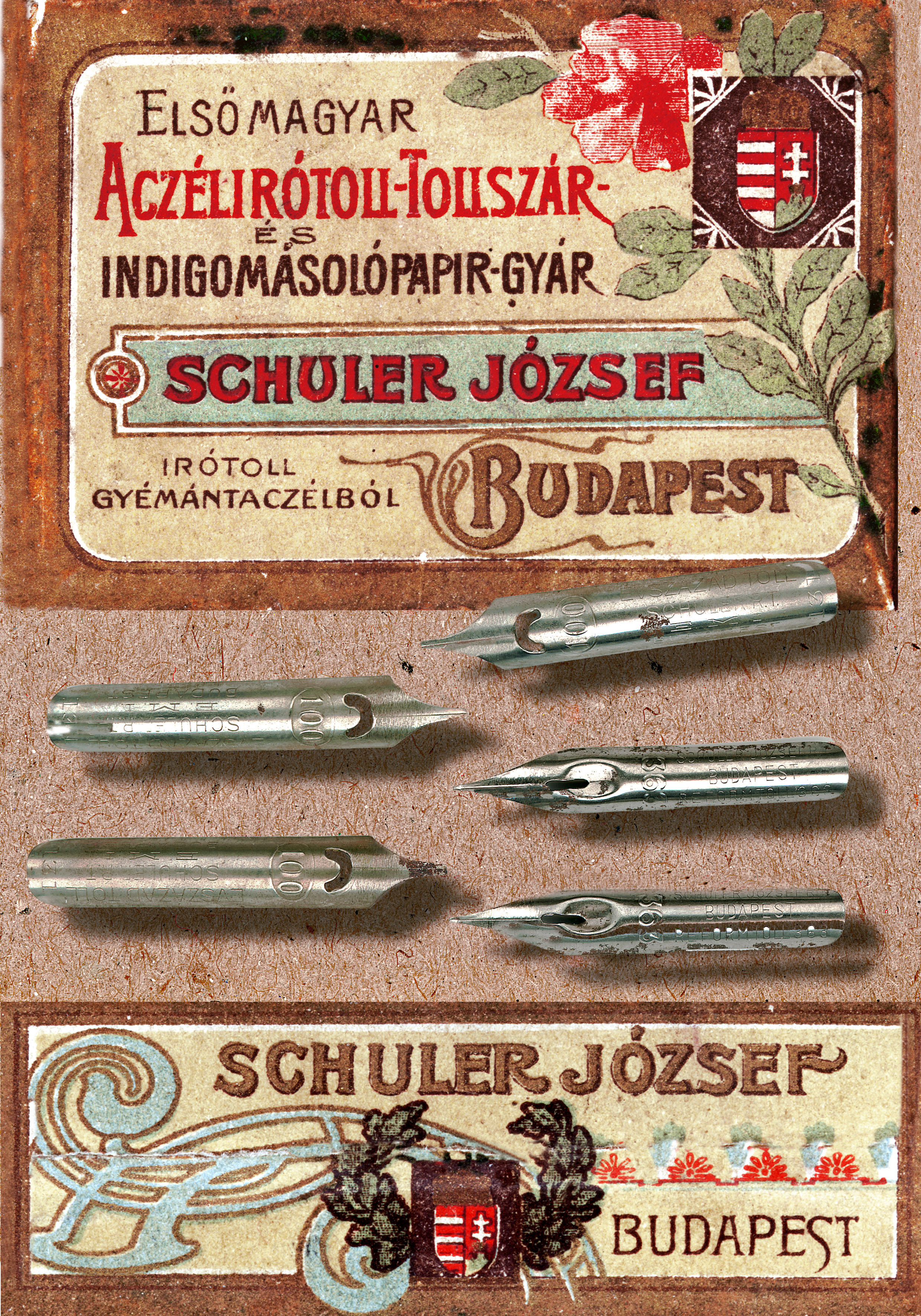 Stainless steel pen nib by Joseph Schuler, Budapest- X. Kőbánya, Hungary 1910.Plakát.